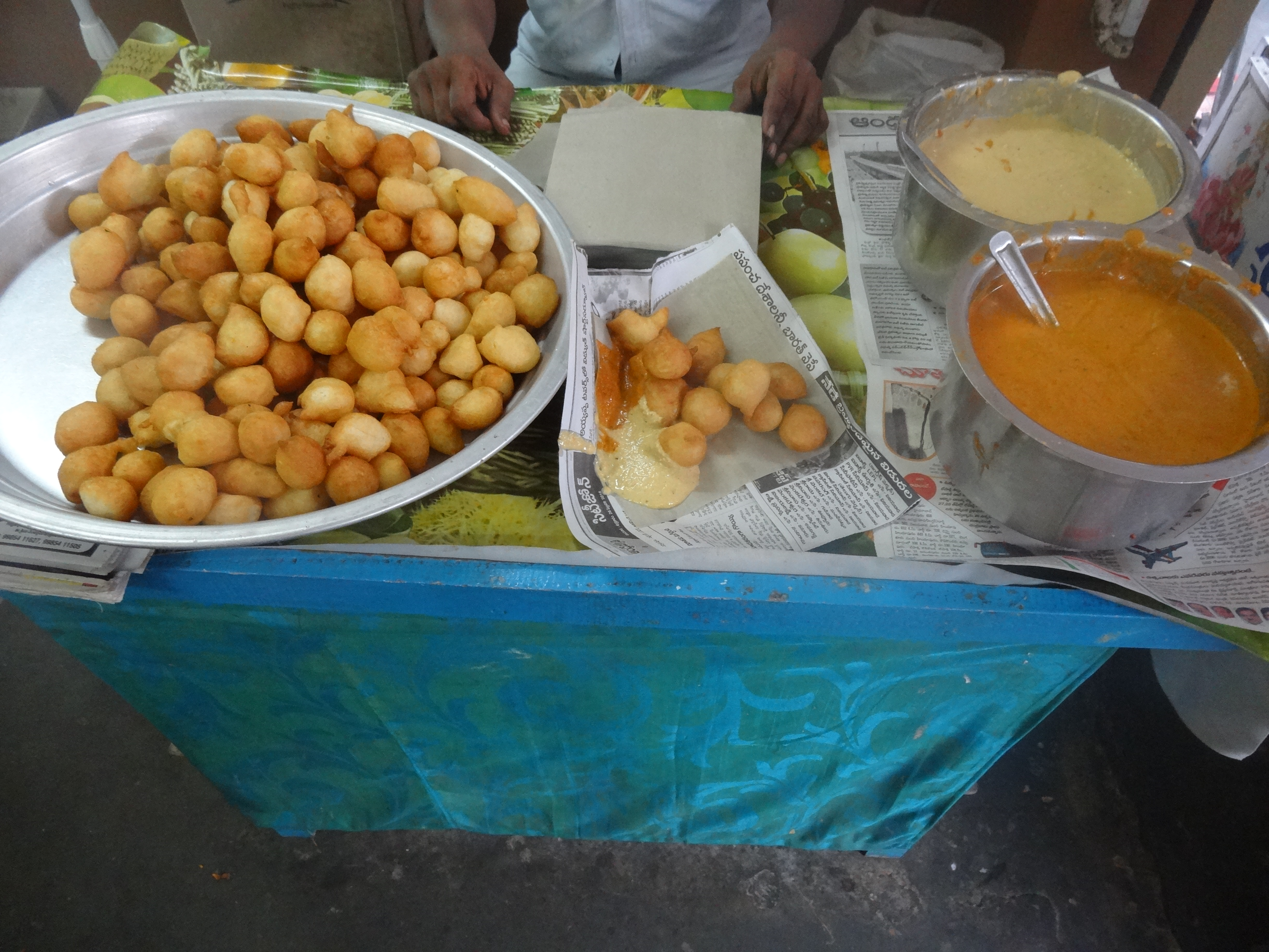 Punugulu / Punukkulu is a Andhra snack and common street food served along with coconut chutney and chilly chutney. Picture taken in Palakollu, West Godavari District, India.